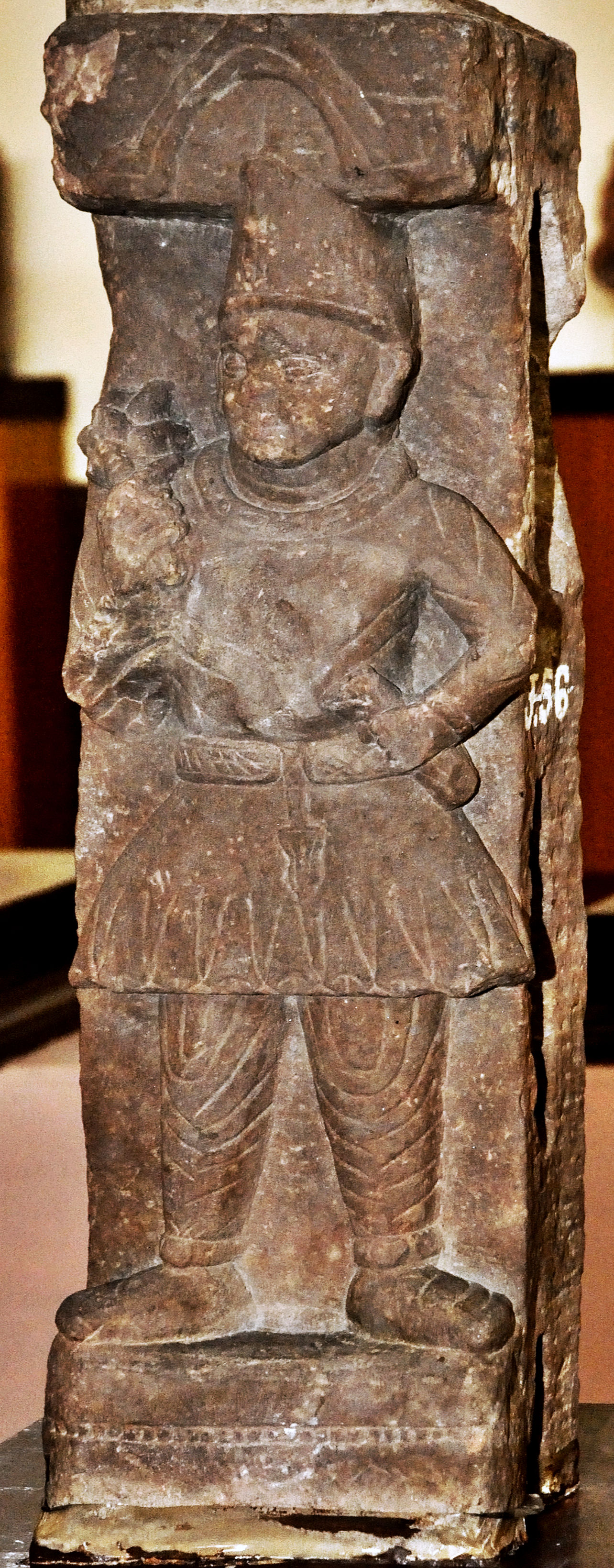 Kushan devotee Mathura